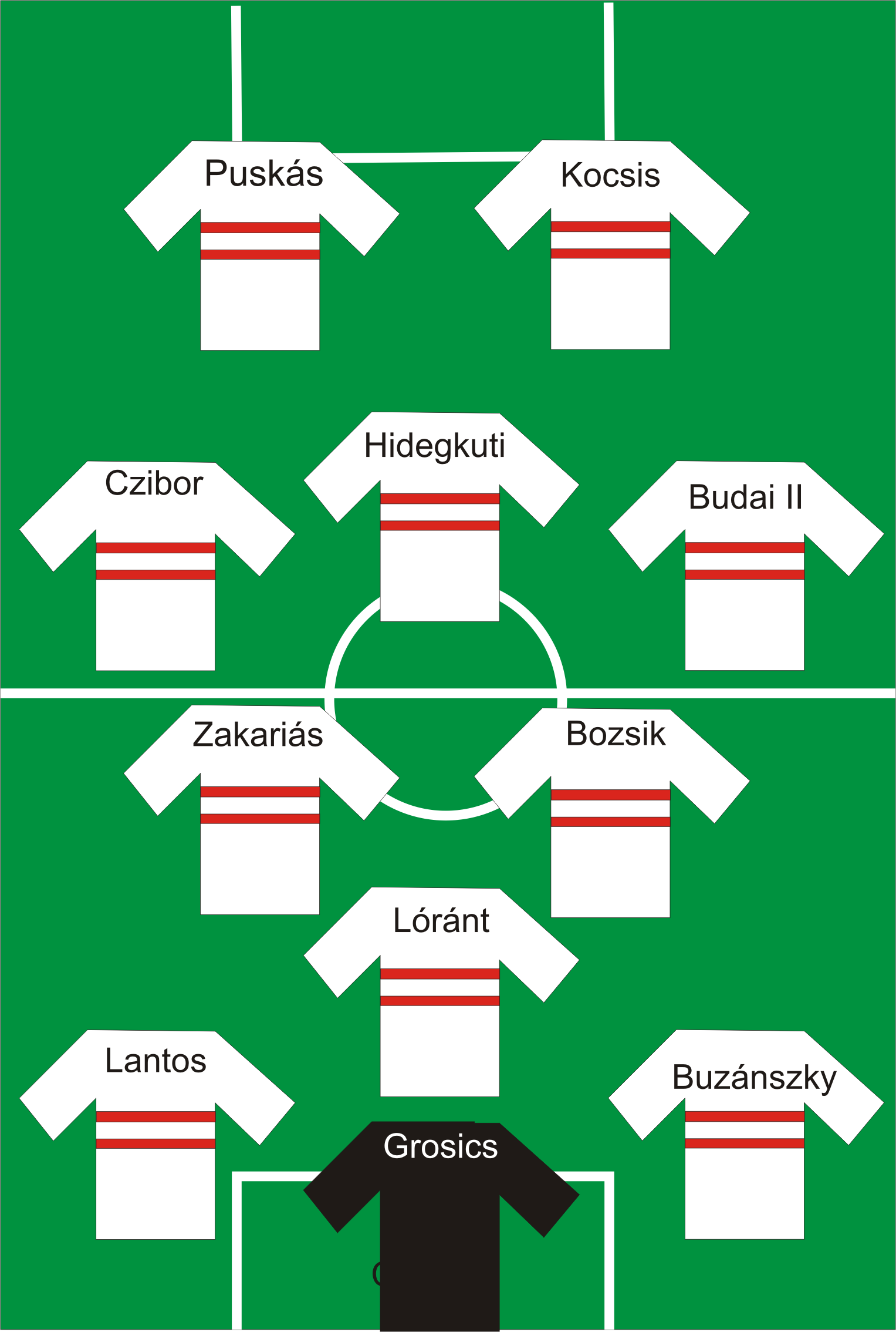 Standup formation of the hungarian Golden Team / Aranycsapat or referred to: Gold Team, The Magical Magyars, The Magnificent Magyars, The Mighty Magyars.